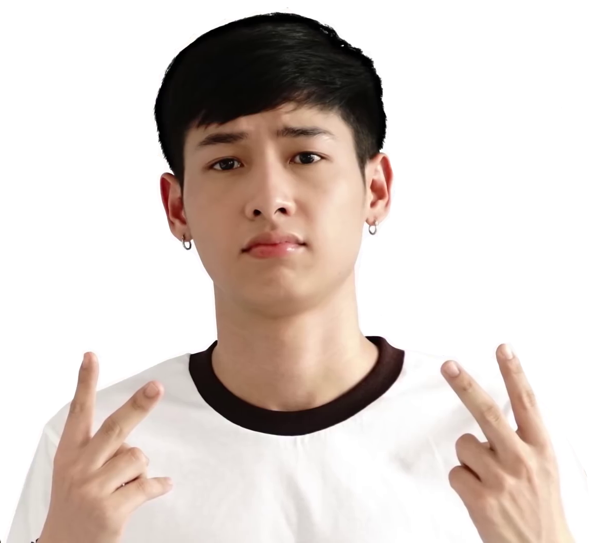 Atthaphan Poonsawas, screen capture from promotional video for Game of Teens